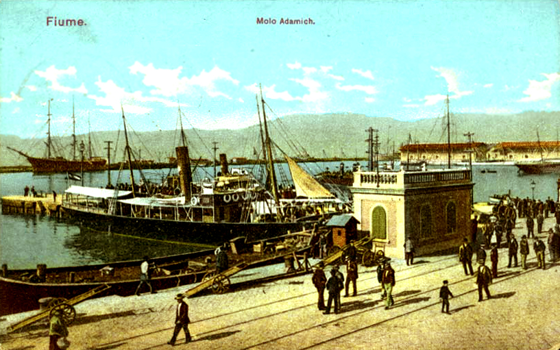 Postcard of Austro-Hungary, Rijeka/Fiume, 1910